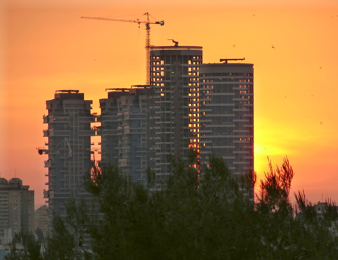 Yoo Towers under construction in Tel Aviv; two of the Akirov Towers are visible in the background.